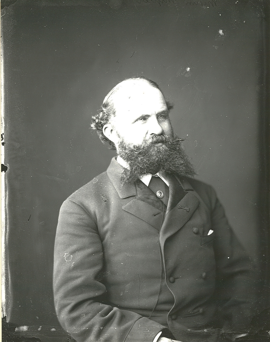 Depicted person: Morten Müller